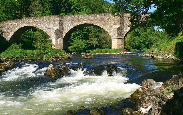 Yair Bridge From just downstream, Yair Bridge majestically spans the Tweed taking traffic to and from Selkirk.